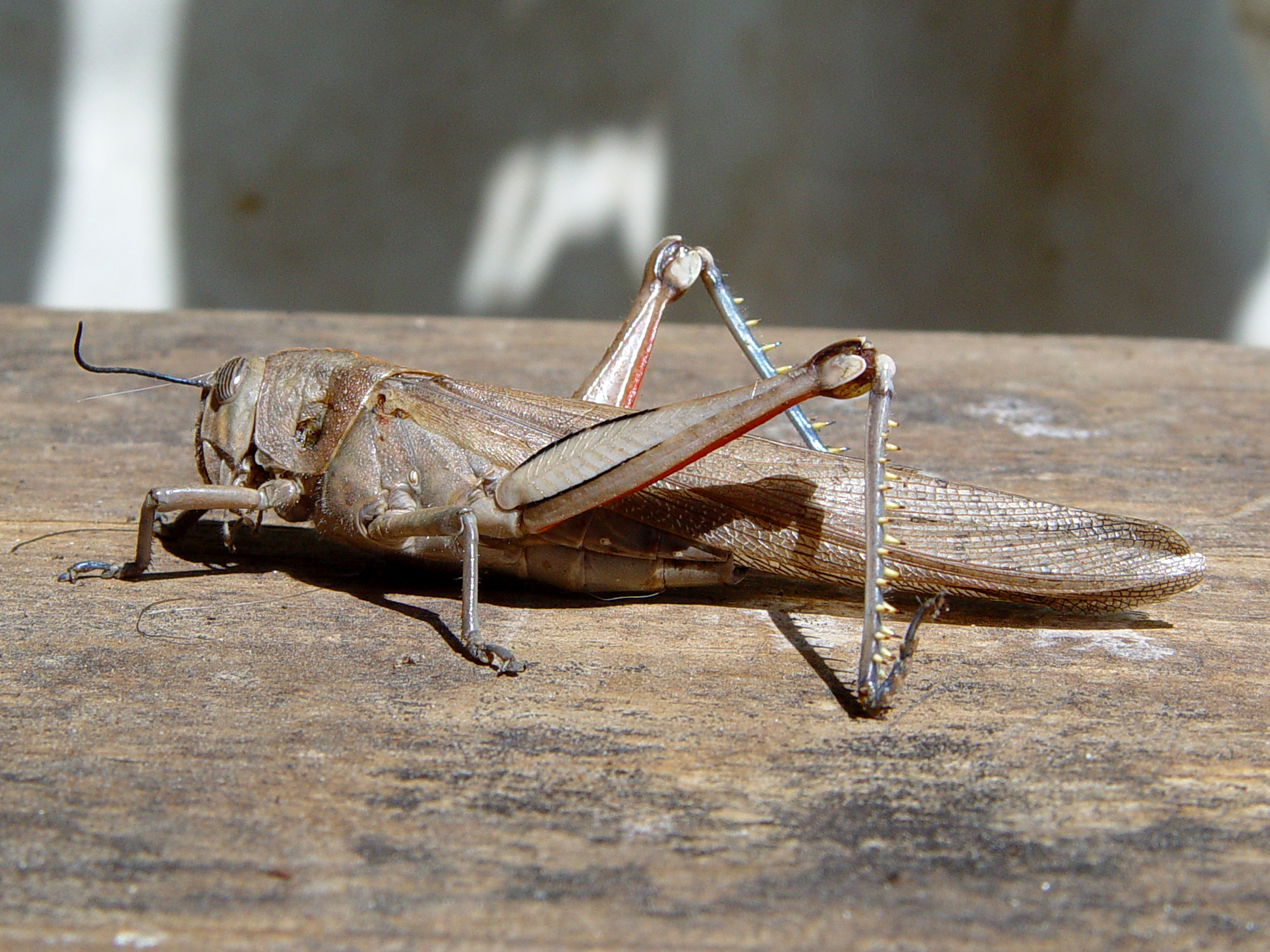 Anacridium aegyptium found in Tel Aviv on 2013-04-04